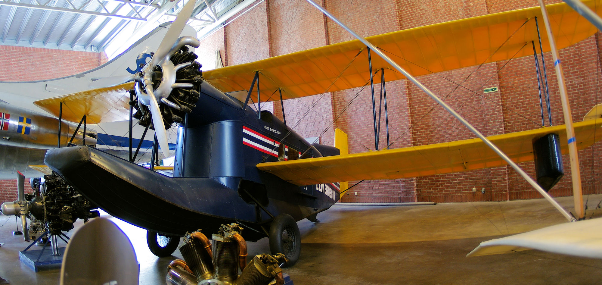 Loening Air Yacht C2C, LN-BAH, used by Thor Solberg and Paul Oscanyan flying from USA to Norway in 1935. Displayed at Norsk Teknisk Museum, Oslo